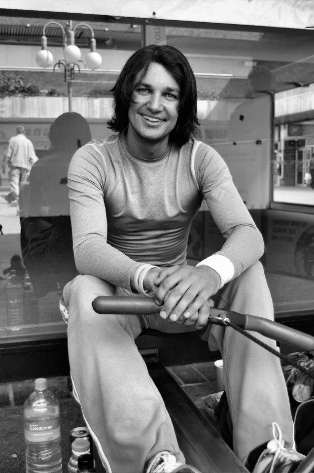 Photo of Dave Holby on his rowing machine during his successful guinness world record attempt to cover the virtula distance of the earth's equator